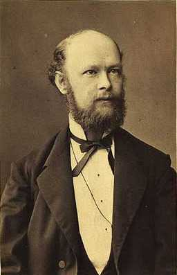 Karl Adolf Verner (7 March 1846 – 5 November 1896)